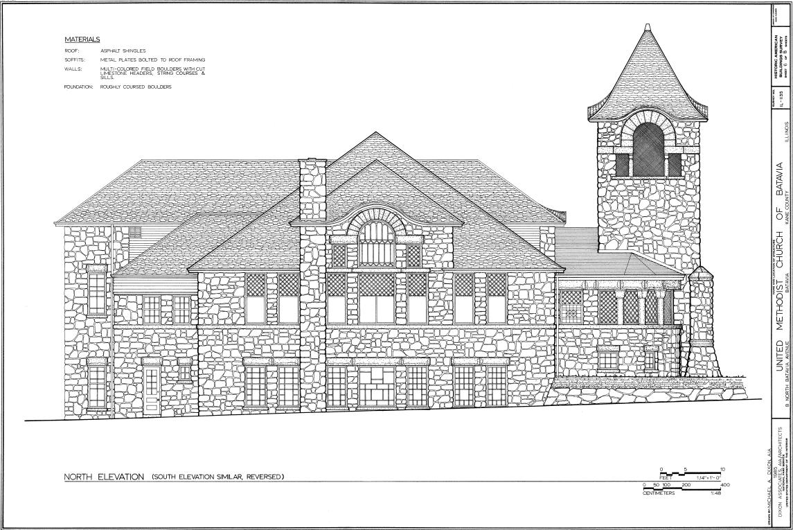 From the Historic American Buildings Survey (Library of Congress) Source: Library of Congress at (search for "Batavia")